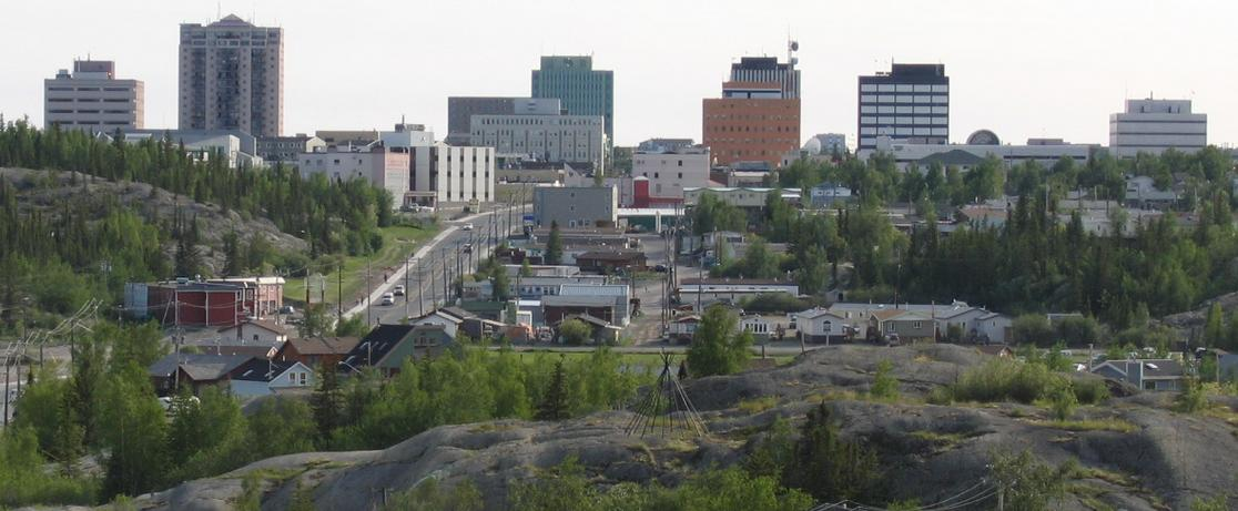 Downtown Yellowknife, NWT, Canada. Photo was originally taken by user:Trevor MacInnis but remade by me.